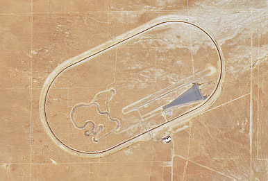 Hyundai Motor Group California Proving Ground in the Mojave Desert, California. On July 1, 2019, Operational Land Imager (OLI) on NASA's Landsat 8 acquired the image this image was cropped of.